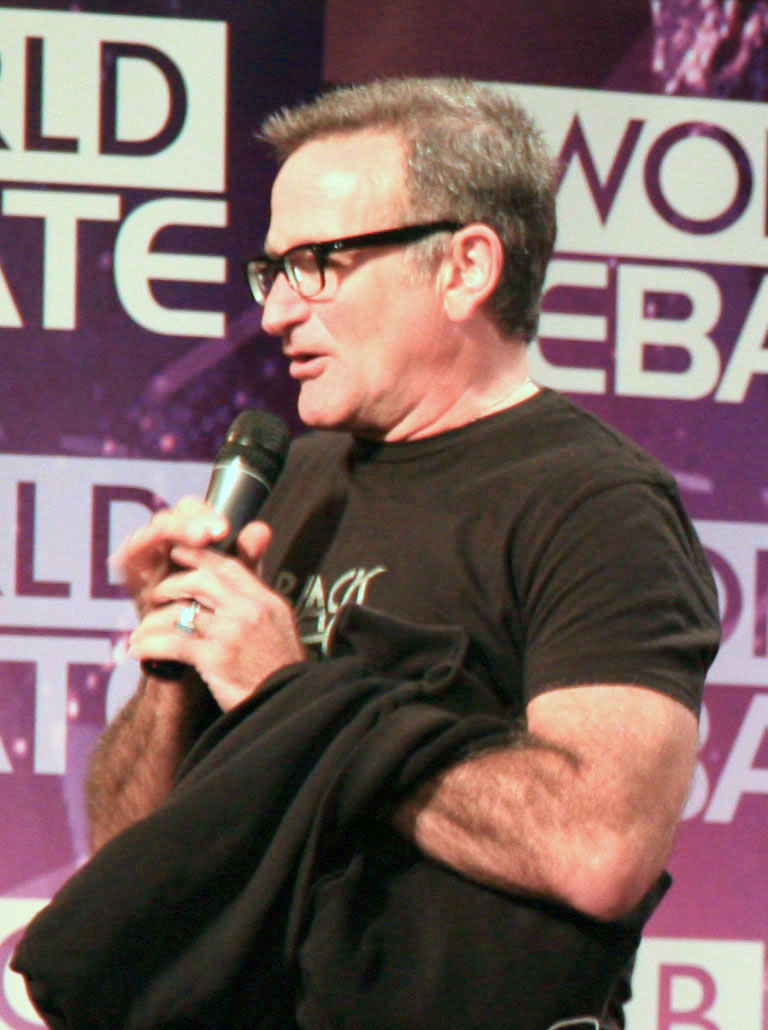 Robin Williams, U.S. actor, at the 2008 BBC World Debate.